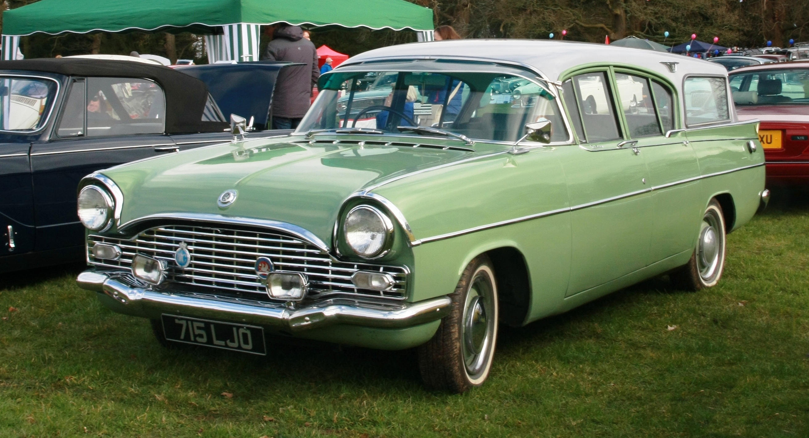 Vauxhall Velox PA estate (1961)